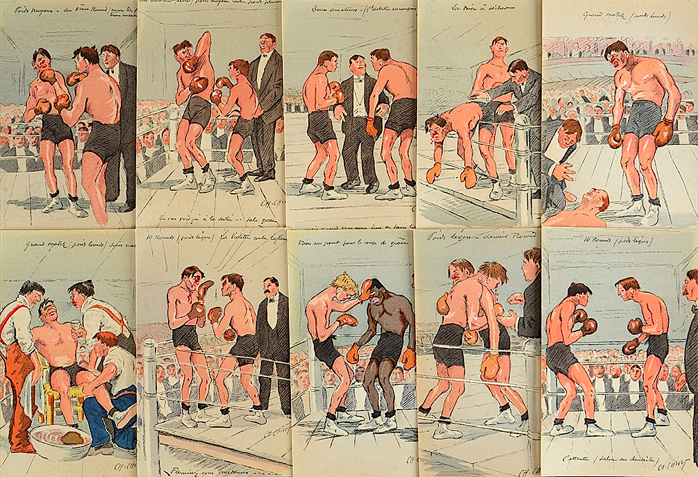 Boxeurs, a serie of 10 cartes postales illustrated and signed by Charles Chivot (Paris, 1866-1941).